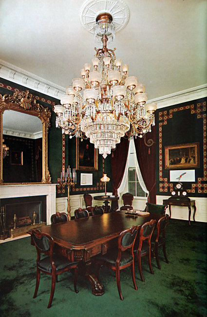 White House Treaty Room as designed by Stéphane Boudin during the administration of John F. Kennedy. Kennedy Library and Museum, NARA—National Archives and Records Administration.